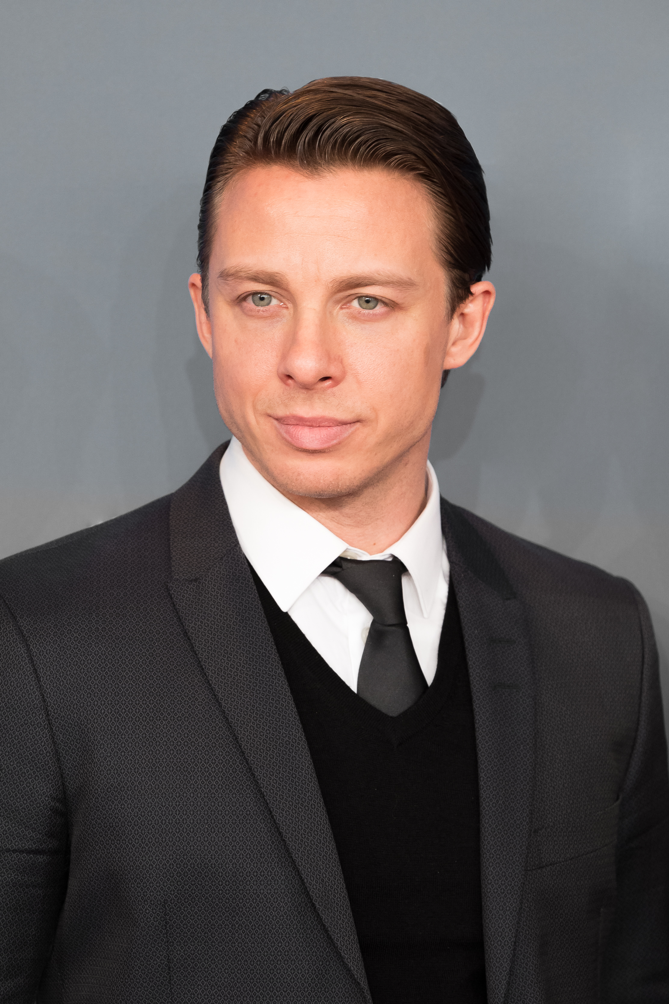 The actor Johannes Lassen of danish series Gidseltagningen (Below the Surface) at the Berlinale 2017